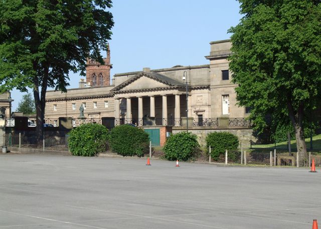 Chester Crown Court On the east side of Castle Square.